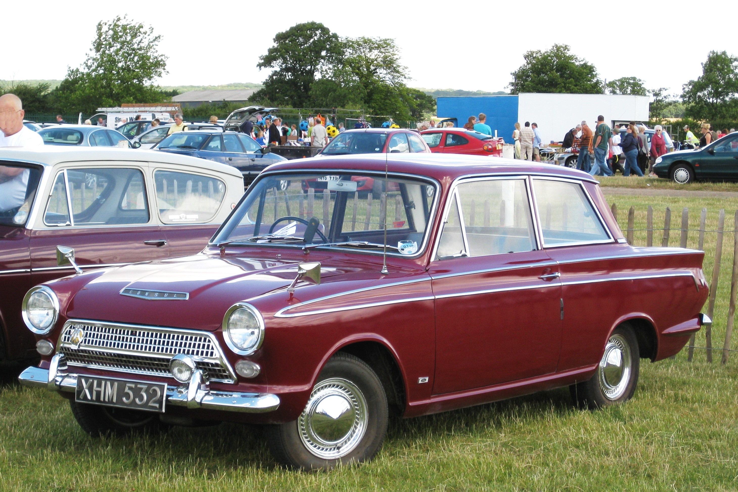 Ford Consul Cortina Super Mk I two door. This is one of relatively few surviving Cortinas from before the 1964 face-lift. The side-lights are separated from the grill: in 1964 they became integrated into a widened grill. The chrome side trim indicates that this is a Cortina Super.